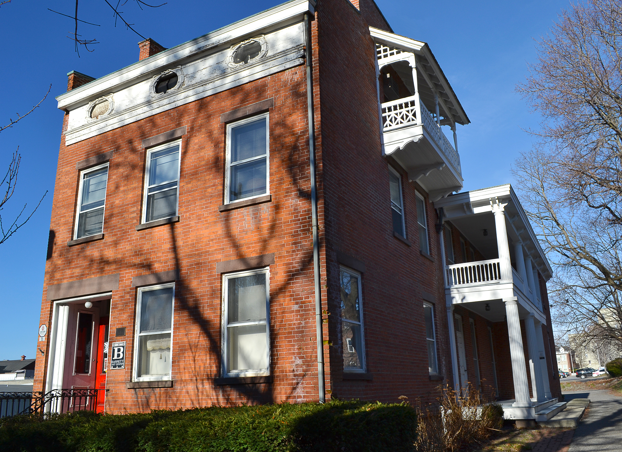 Barrett House, Poughkeepsie, New York. Southern (front) elevation and eastern profile.